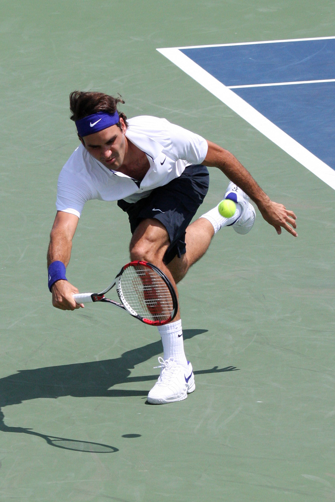 Loss to Ivo Karlouic 7-6 4-6 7-6. 2008 Western & Southern Financial Group Masters in Mason, Ohio